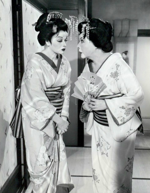 Publicity photo of Lucille Ball and Vivian Vance from the television program The Lucy-Desi Comedy Hour. This episode is "The Ricardos Go to Japan". In the episode, Lucy and Ethel dress as geishas in an attempt to get Lucy the pearls she has been wanting.